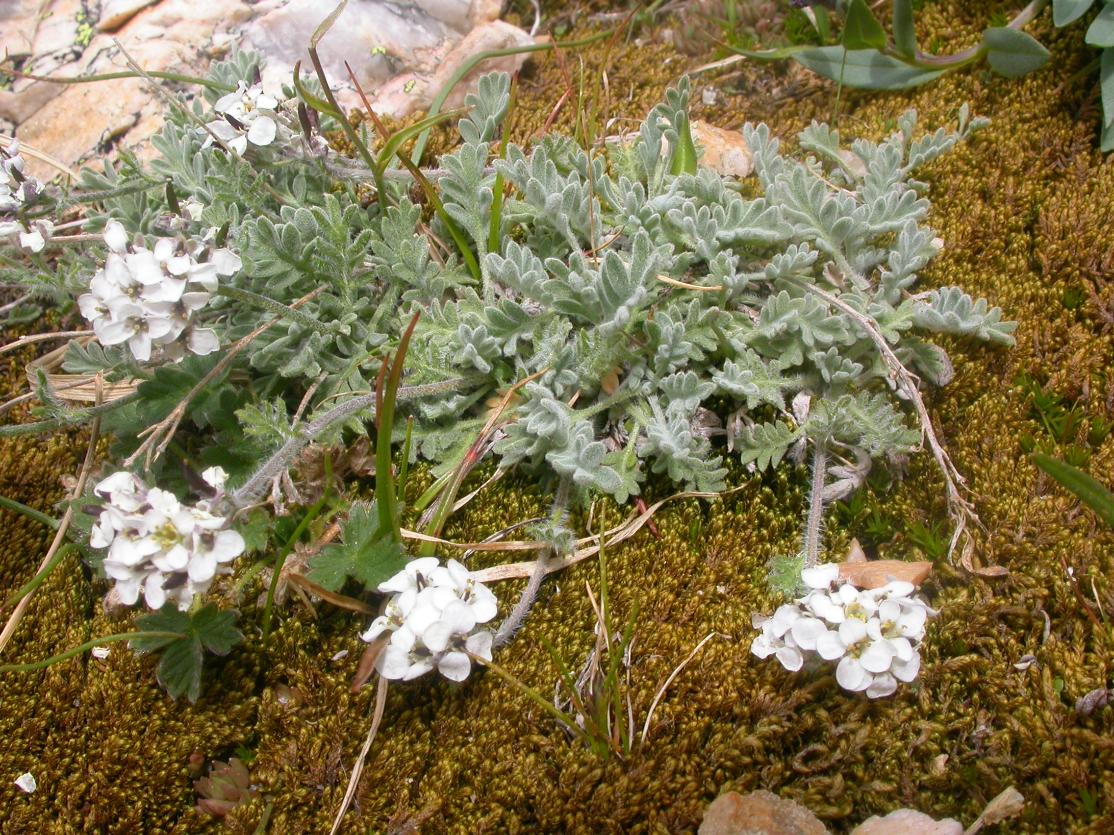 This alpine species is readily recognized by it compact growth form and gray green dissected leaves.